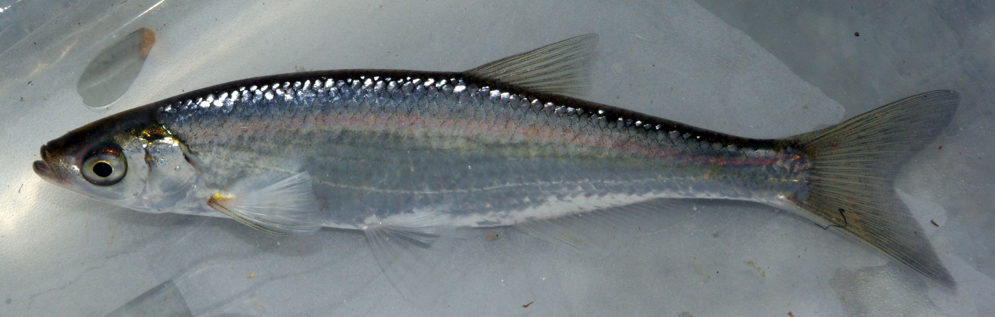 Common Bleak (Alburnus alburnus). River Douro, Soria (Spain)